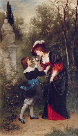 A noble suitor